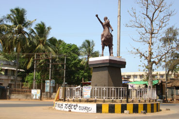 Ullal